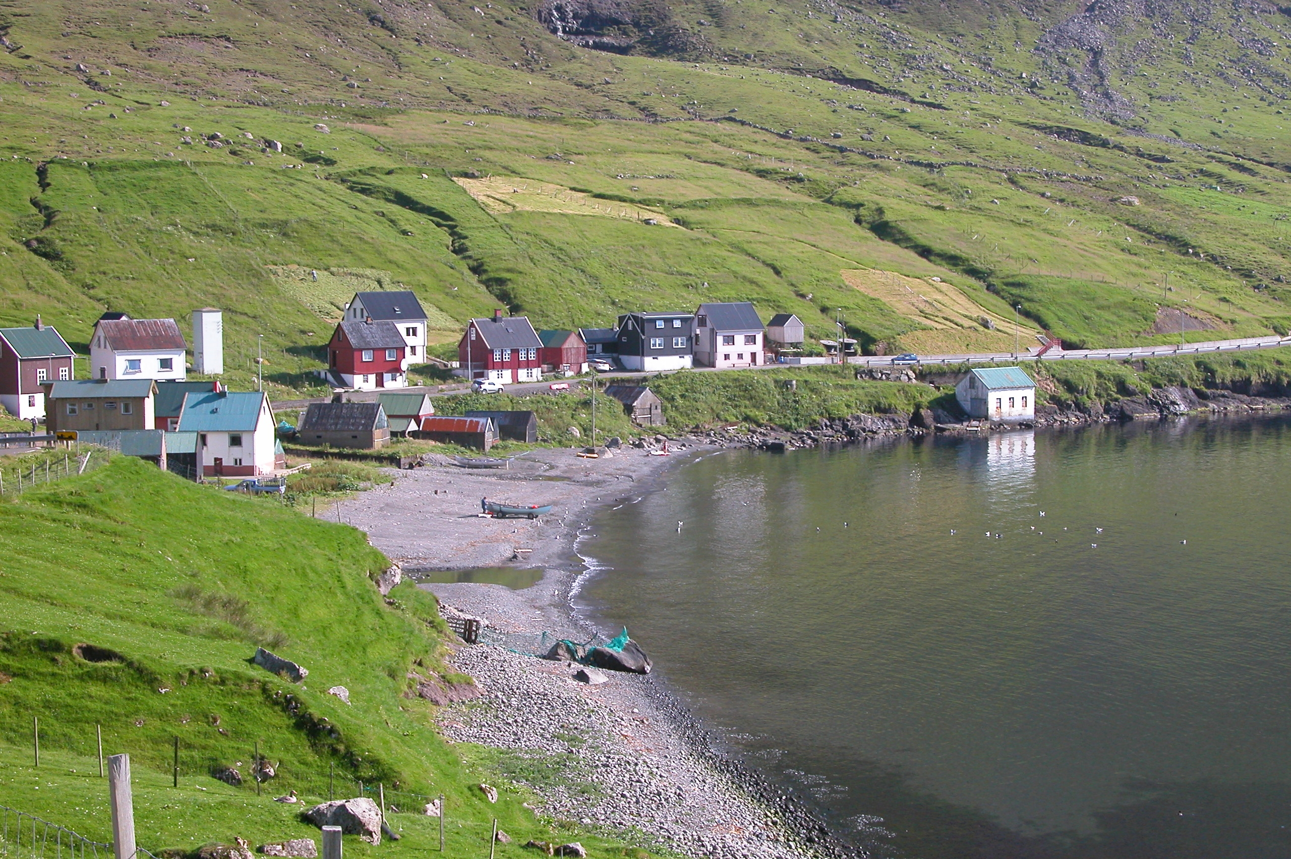 Árnafjørður on Borðoy, Faroe Islands.